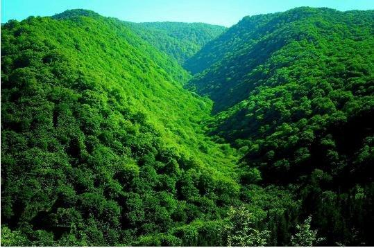 Nature of Gorji Mahalleh village in Behshahr county.